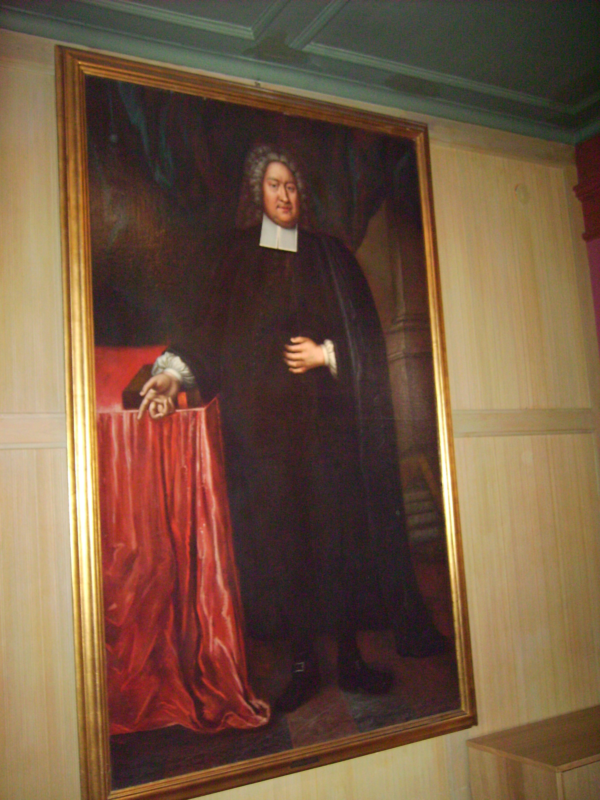 Photo by Harri Blomberg.